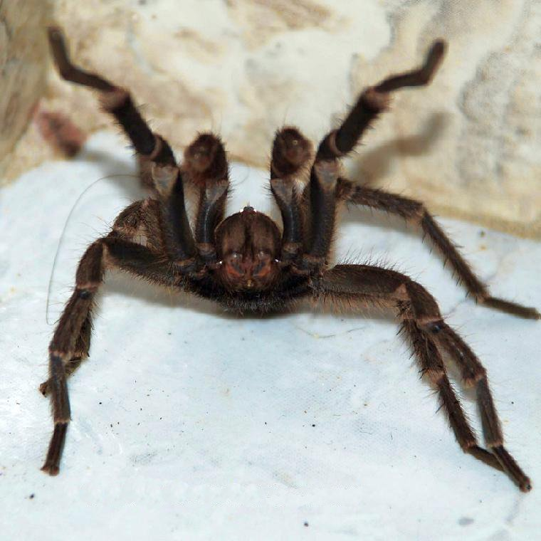 Brazilian tarantula in attacking position